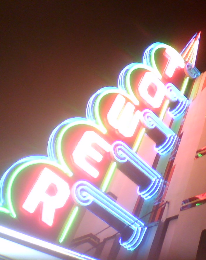 The neon sign on the Tower Theater located at 425 NW 23rd Street in Oklahoma City, Oklahoma. [1]